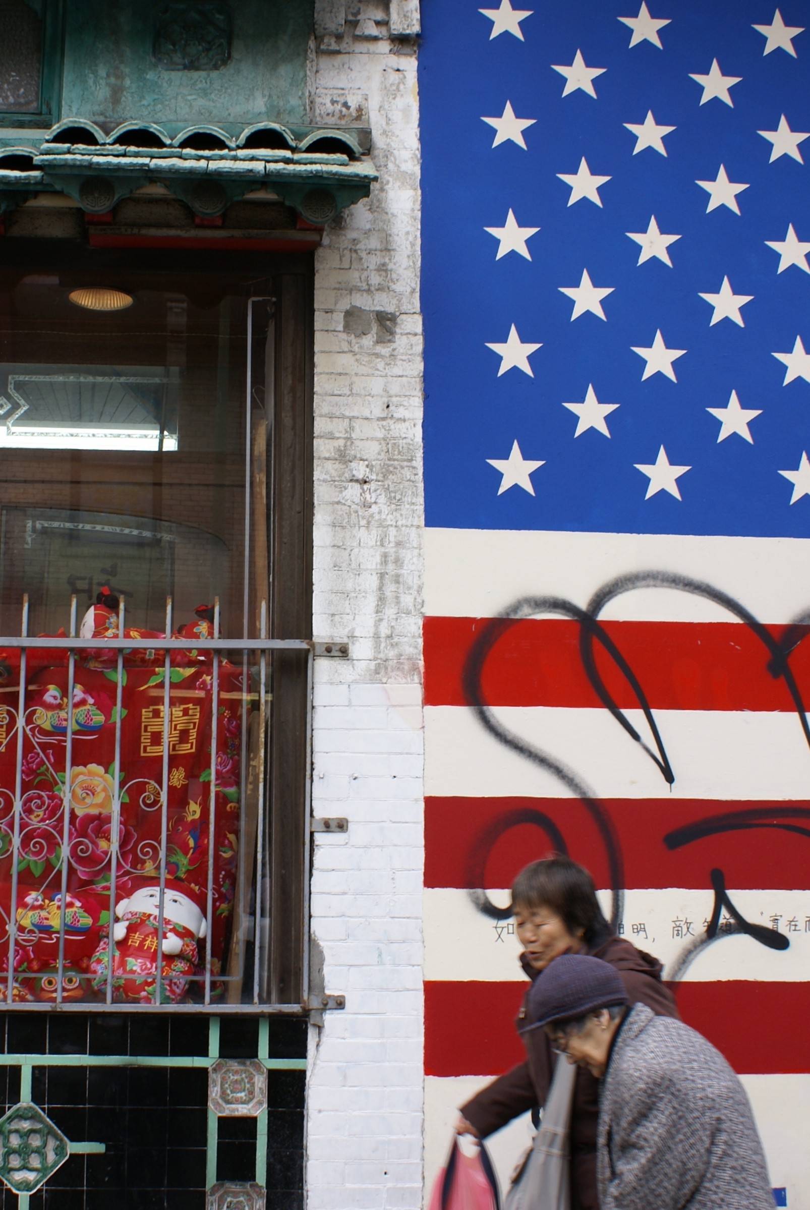 Chinatown, San Francisco, Februrary 2007